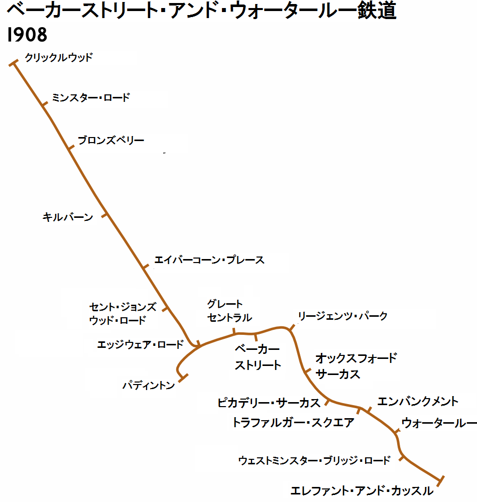 Geographic Map of the Baker Street & Waterloo Railway, 1908.